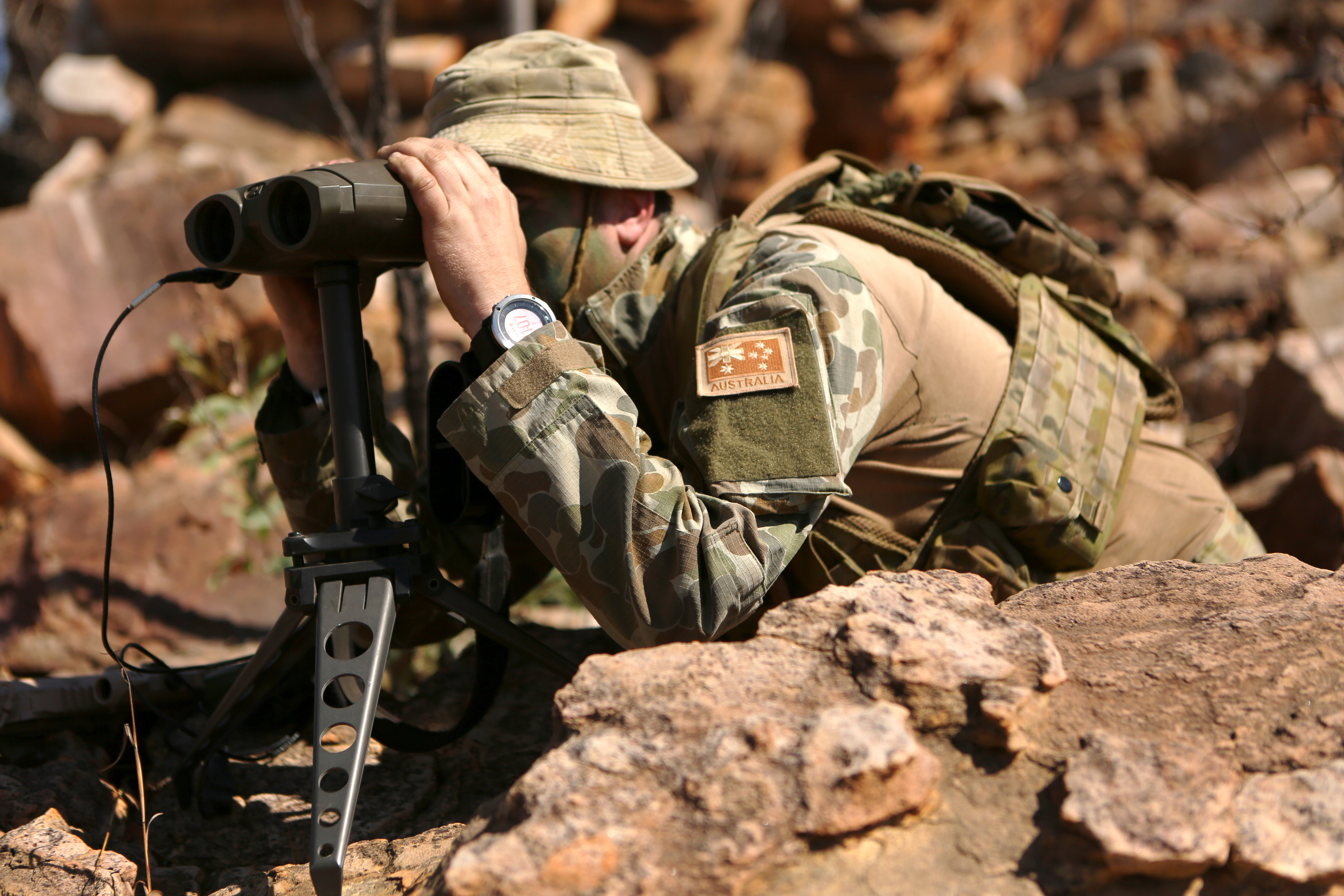 Australian Army Sgt. Michael Krek, a joint terminal attack controller, measures the distance of an artillery impact from target zone at Bradshaw Field Training Area, Northern Territory, Australia August 11, 2016. Krek is working with U.S. Marines during Exercise Koolendong 16, a trilateral exercise between the Australian Defence Force, U.S. Marine Corps and French Armed Forces New Caledonia. (U.S. Marine Corps photo by Sgt. Sarah Anderson)